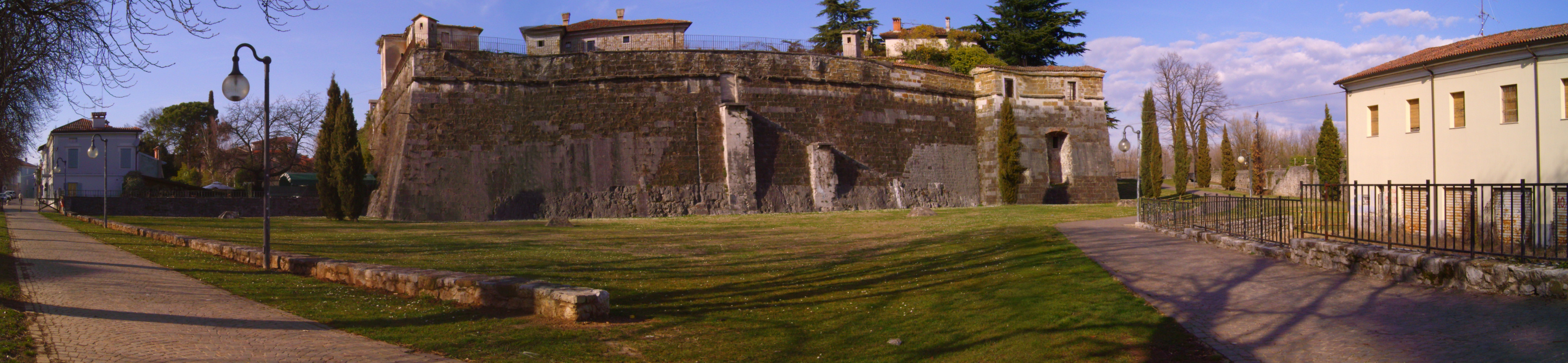 View of the town castle